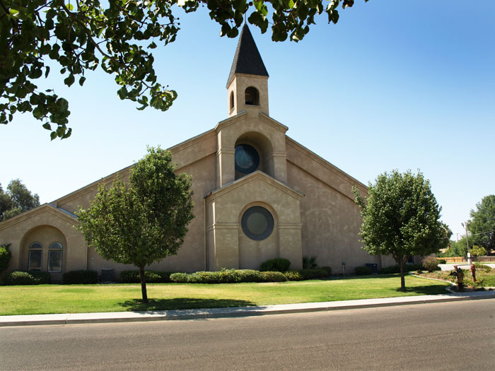 Adventist Church, outside